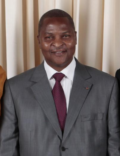 President Barack Obama and First Lady Michelle Obama pose for a photo during a reception at the Metropolitan Museum in New York with Faustin Touadera.